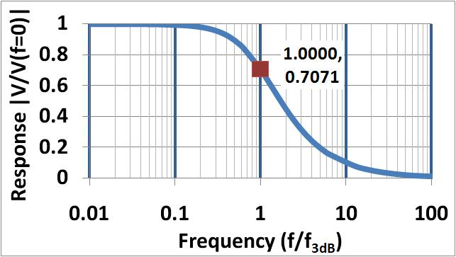 Frequency response of single pole system